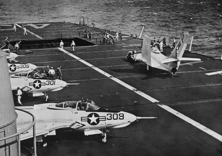 U.S. Navy Grumman F9F-8B Cougars of Attack Squadron 106 (VA-106) "Gladiators" aboard the aircraft carrier USS Coral Sea (CVA-43). VA-106 was assigned to Carrier Air Group 10 (CVG-10) aboard the Coral Sea for a deployment to the Mediterranean Sea from 13 August 1956 to 11 February 1957.